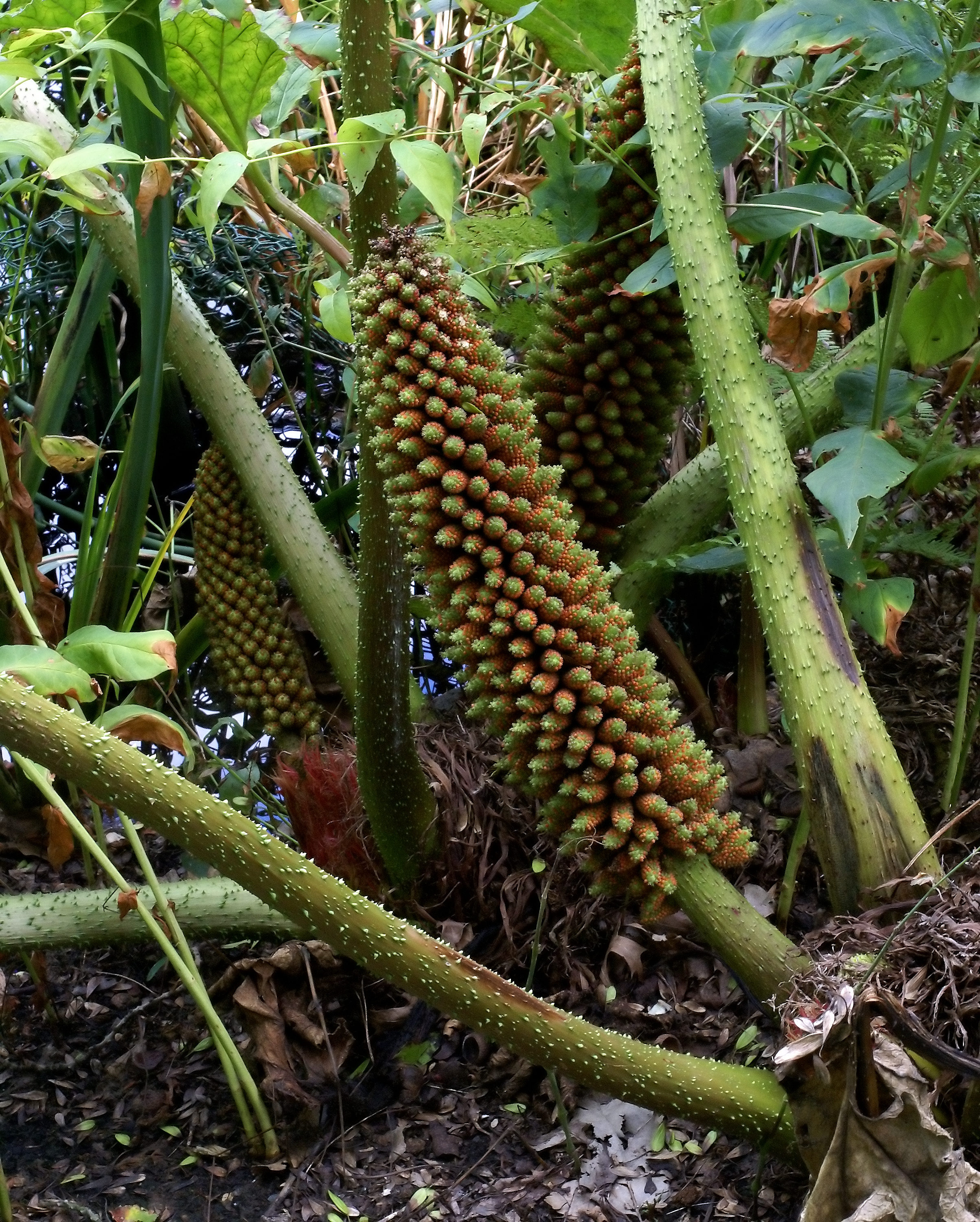 Giant rhubarb at the Kalmthout arboretum in Belgium